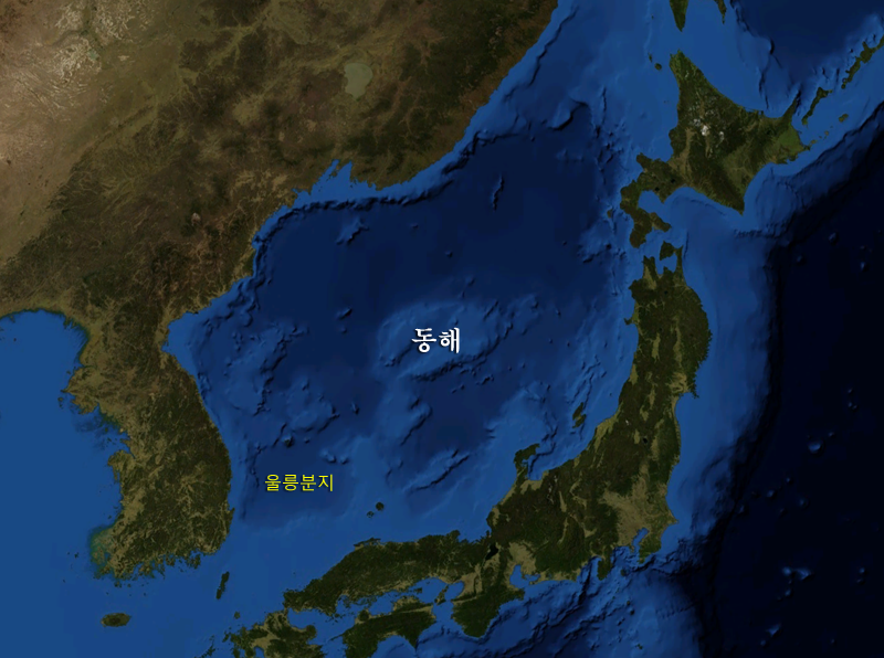 Ulleung Basin